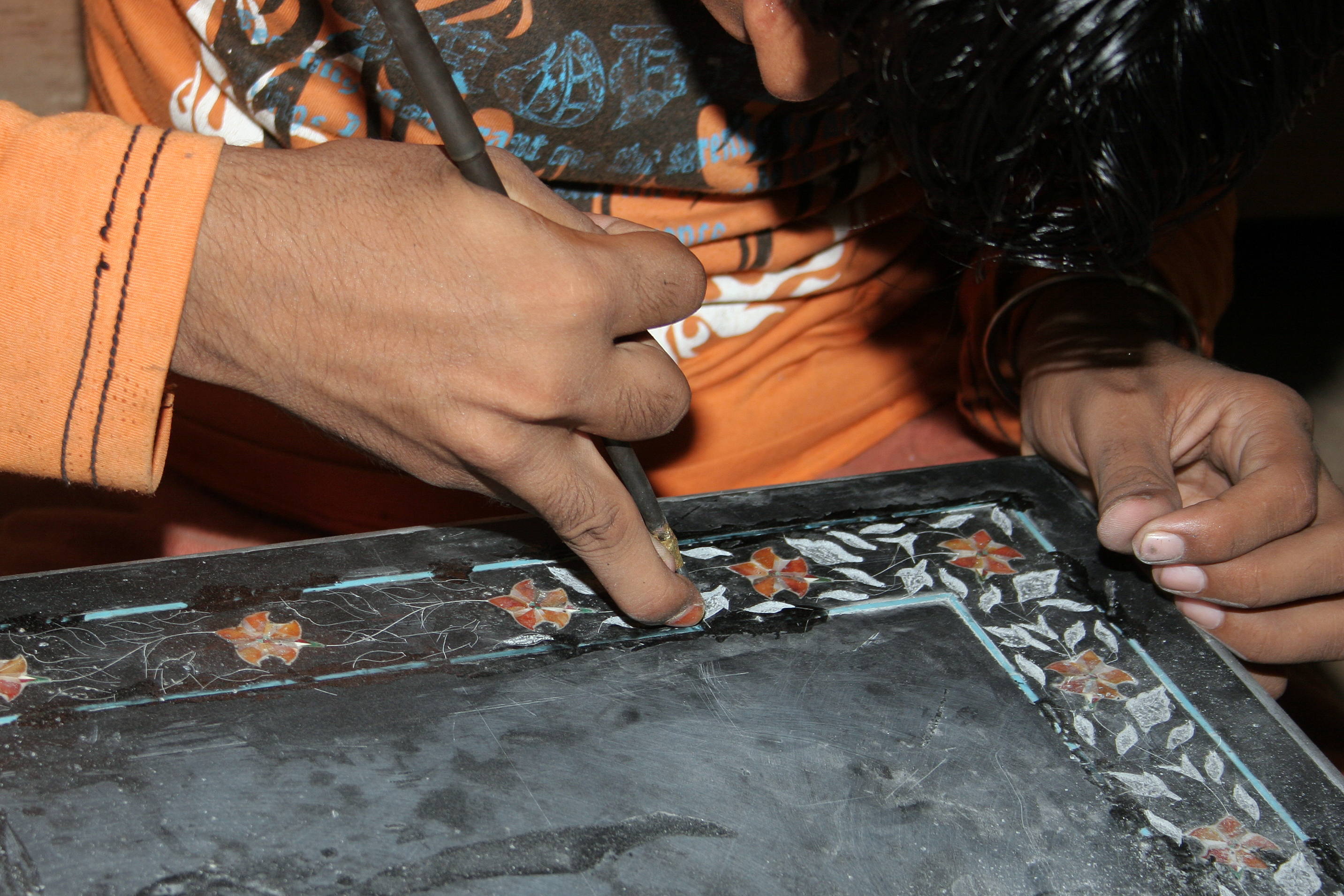 Agra artisan producing marble stone inlays. This craft, as many other, supposedly goes back to the masters building the Taj Mahal.